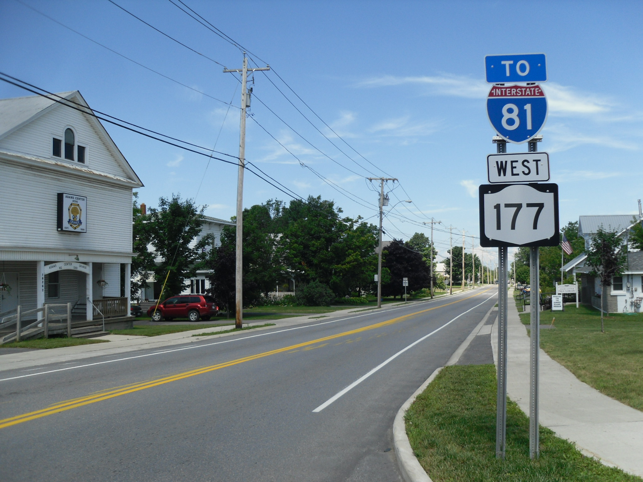 New York State Route 177 westbound heading through the hamlet of Adams Center towards Interstate 81.